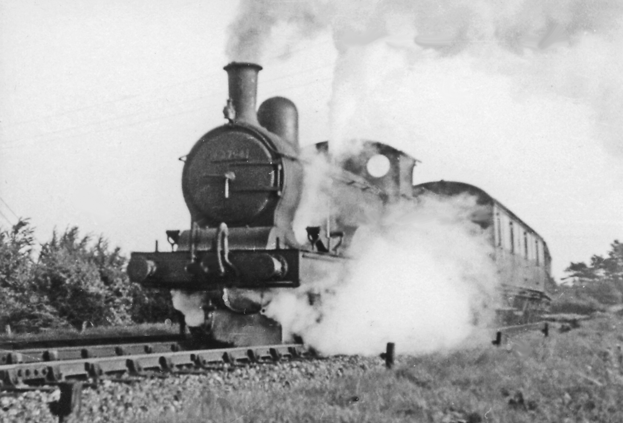 Ex- GE 2-4-0 on Cambridge train leaving Marks Tey. View eastward, towards Marks Tey station and Colchester. Nowadays a service runs only as far as Sudbury, but before 6/3/67 it was rather more than a branch. THe locomotive is ex-GE E4 2-4-0 No. 62794 (former No. 7409), built 6/1902, withdrawn 8/55.